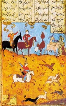 Miniature from Amir Khosrov Dahlavi's Eight Paradises (1579).